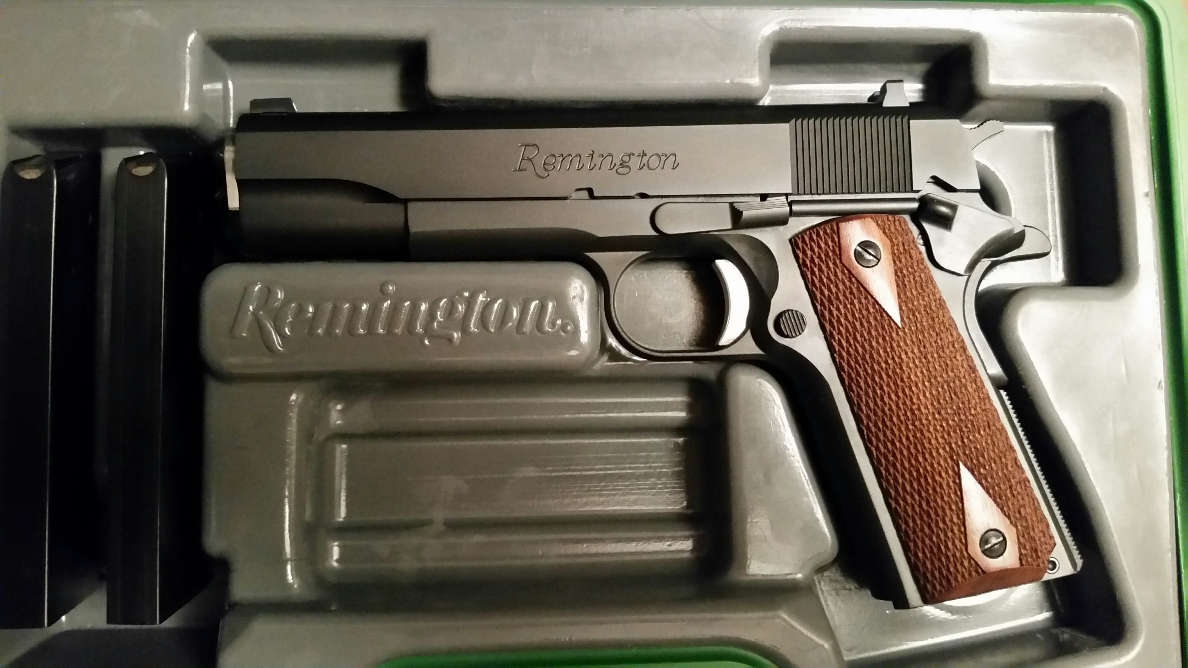 Photo of my Remington R1 1911 semi-automatic pistol in its case.